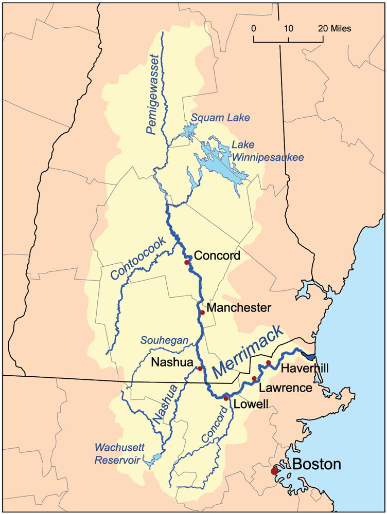 This is a map of the Merrimack River watershed. I, Karl Musser, created it based on USGS data.